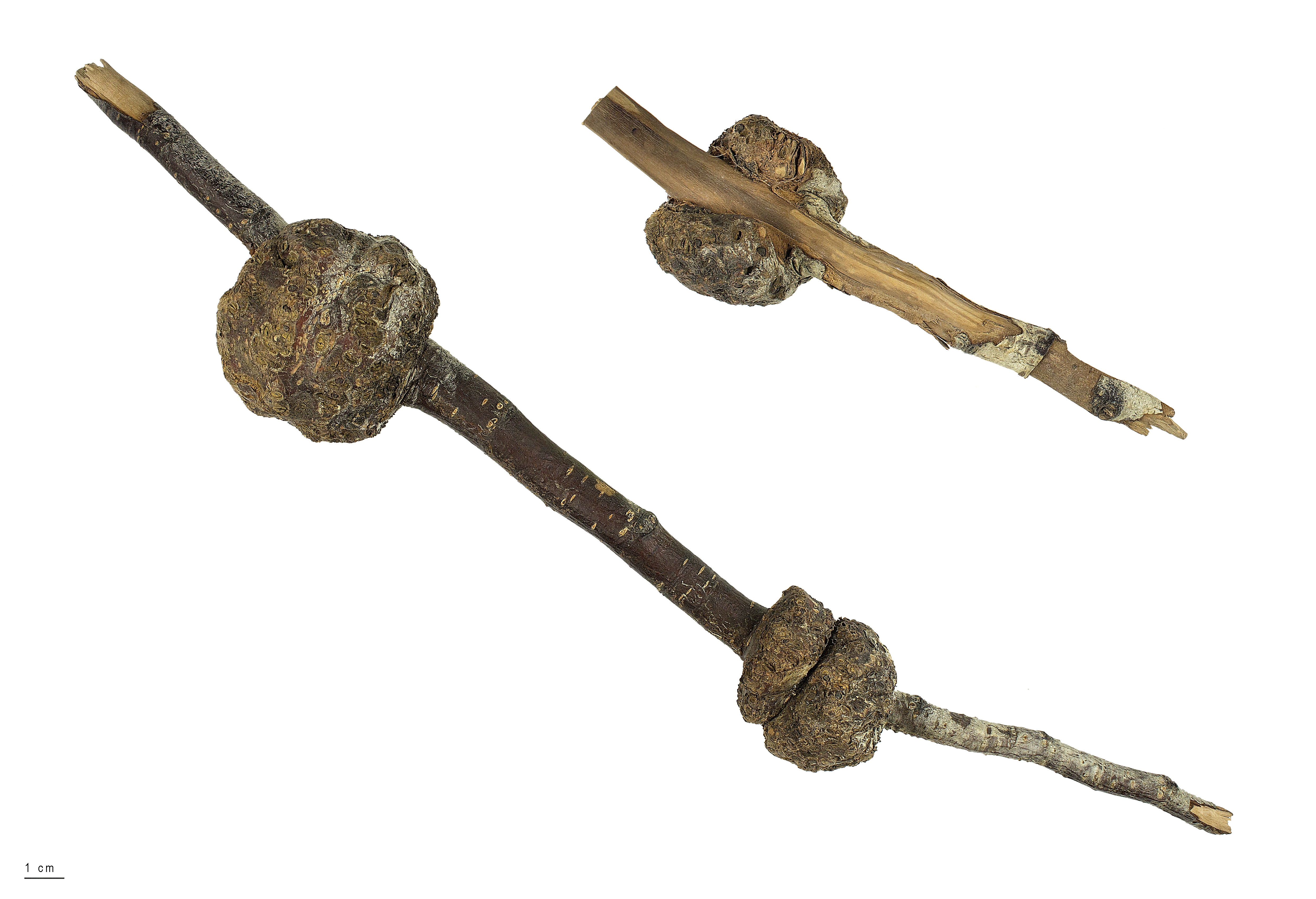 on Nothofagus , fruits and seeds